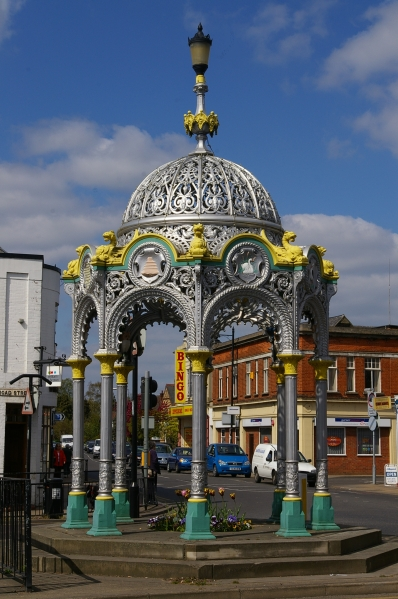 The Fountain, March. The fountain itself is no more, but the cast iron surround erected to mark the coronation of George V in 1911 is still a notable landmark in the town centre.